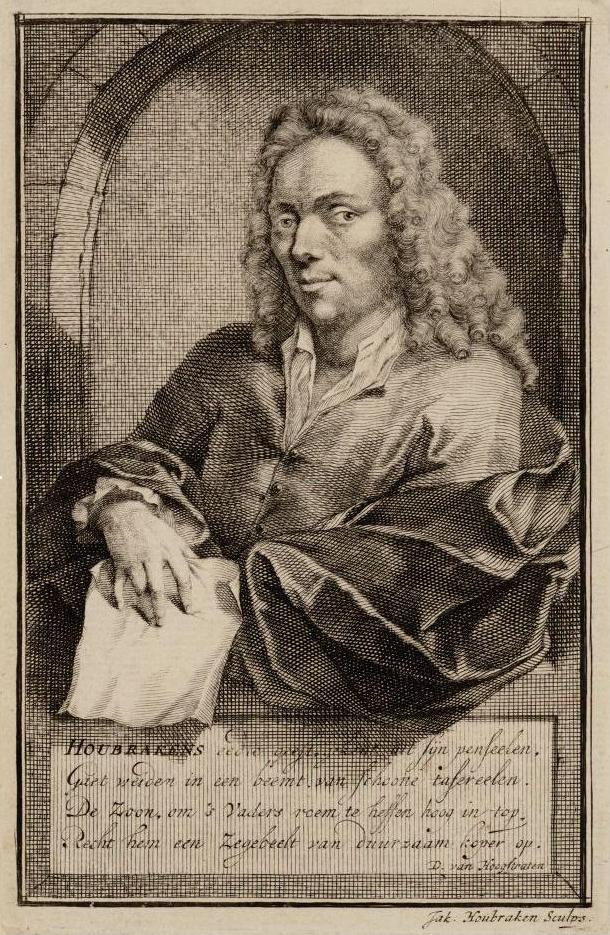 Arnold Houbraken (28-03-1660 / 14-10-1719), Dutch engraver of Amsterdam, known for his book on Dutch artists called 'De groote schouburgh der Neder lantsche konstschilders en schilderessen' (The Great Theatre of Dutch Painters), which included biographies of seventeenth-century painters.